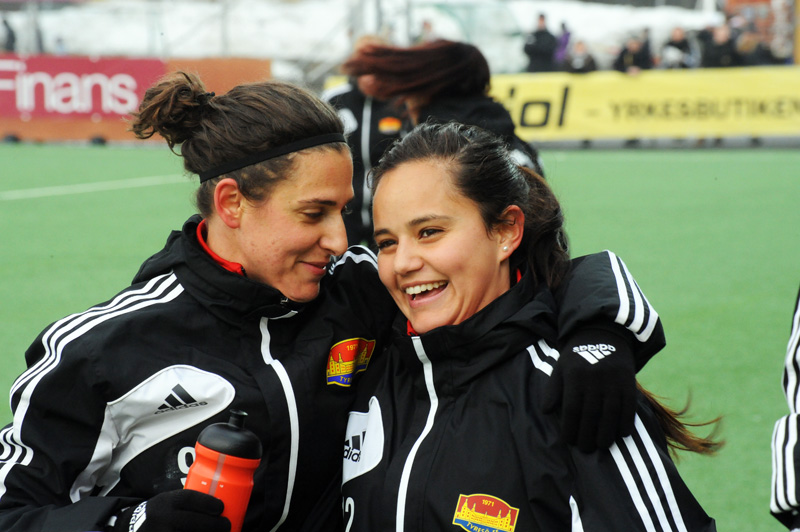 Tyreso team-mates Malin Diaz (right) and Vero Boquete (left)